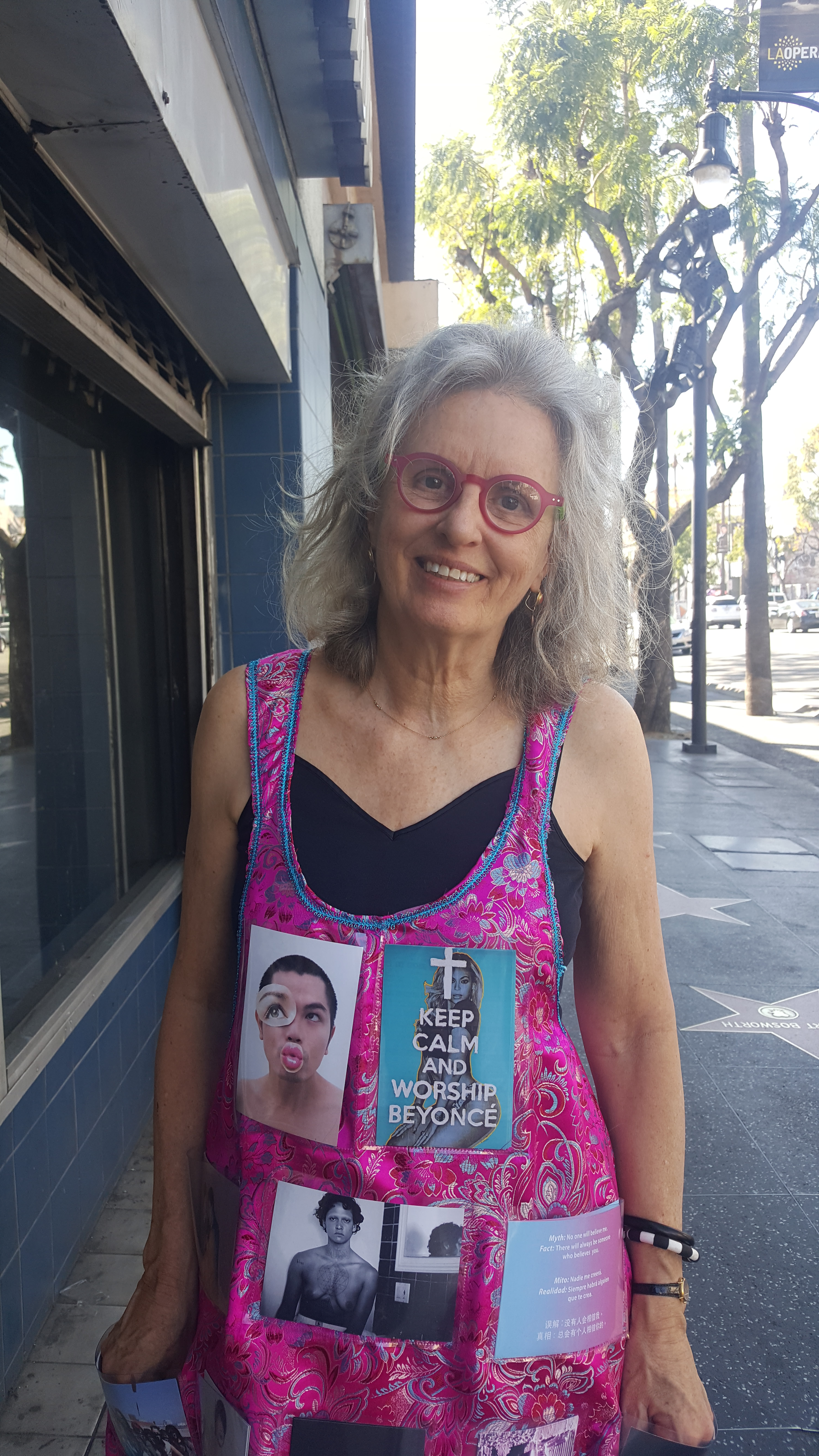 Artist Anne Bray, pictured in Hollywood in 2017.